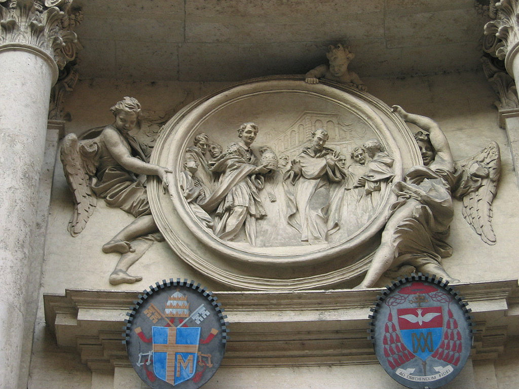 Antonio Raggi - "St. Philip Benizi refuses the papal tiara" (1686). San Marcello al Corso, Rome. Picture taken by User:Torvindus.